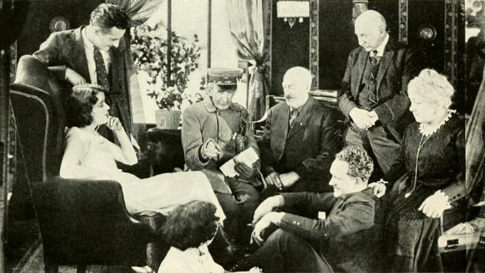 Still from the production of the American film Humoresque (1920) with director Frank Borzage on the floor, the small girl Miriam Battista, Alma Rubens and Gaston Glass on the left, and to the right Vera Gordon with Dore Davidson standing with folded hands, on page 118 of Peter Milne, Motion Picture Directing; The Facts and Theories of the Newest Art (1922).